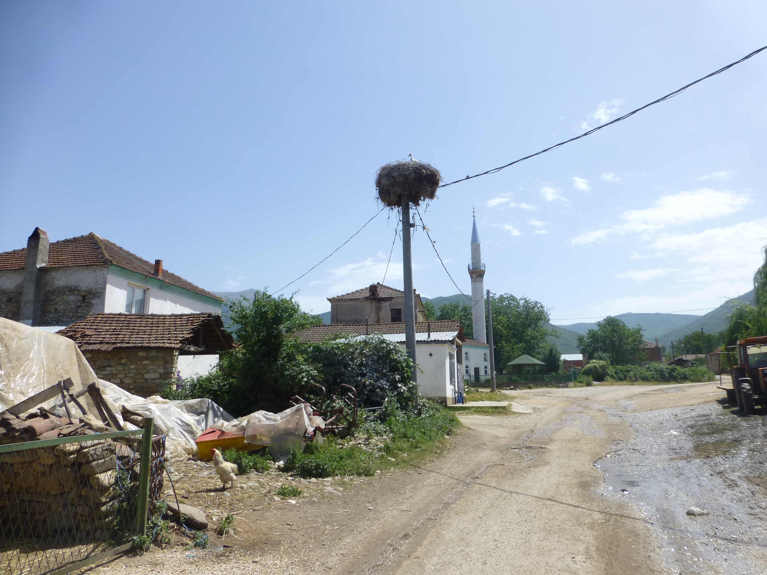 Around Dolenci Village (Bitola Municipality).